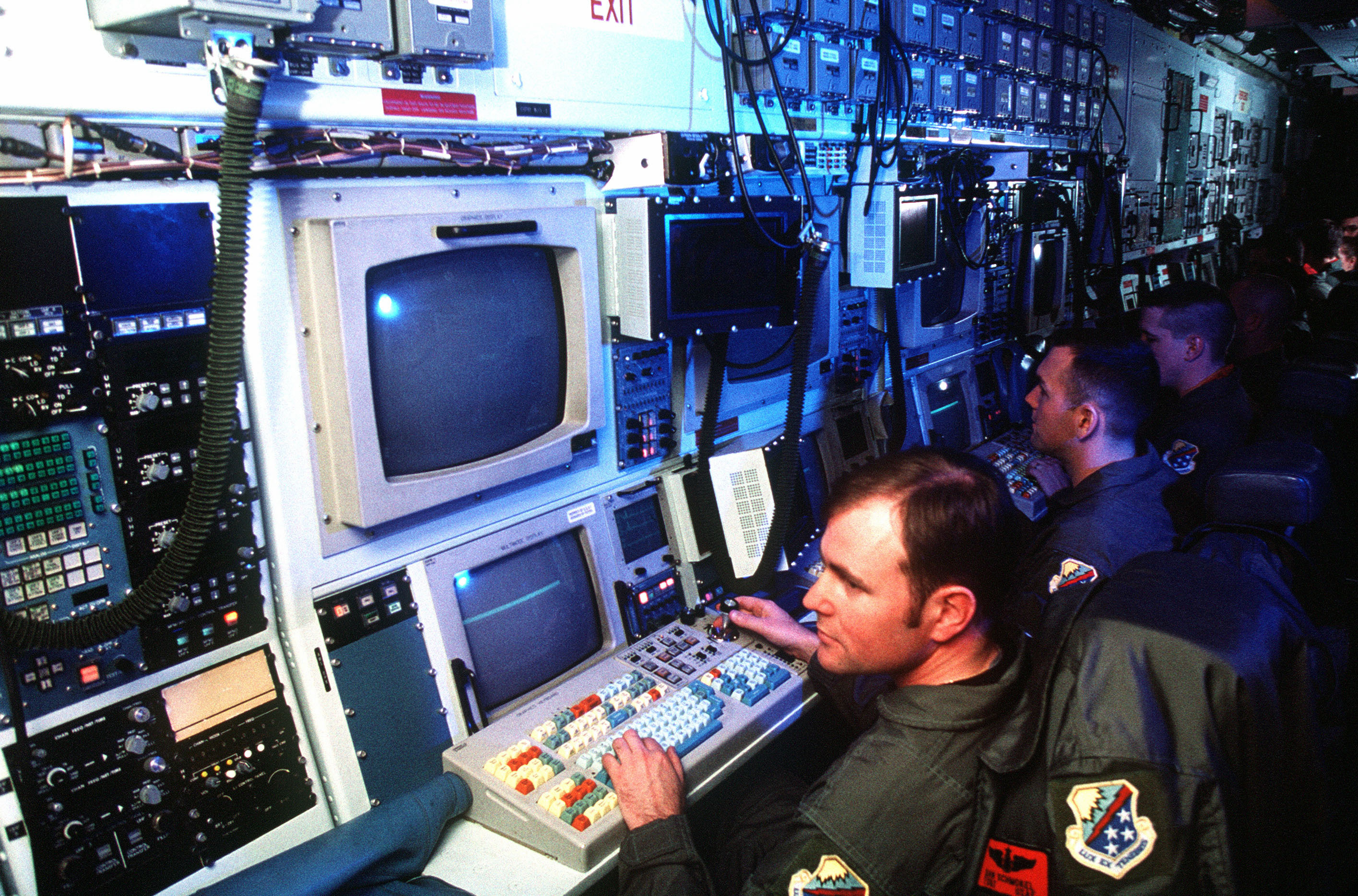 Caption: "An Air Combat COMMAND 55th Wing RC-135W Rivet Joint reconnaissance aircraft from Offutt Air Force Base, Nebraska, flies a training mission over Nebraska. The RC-135W works closely with the E-3A Airborne Warning And CONTROL SYSTEM (AWACS) during war or contingency situations, providing direct, near real-time reconnaissance INFORMATION and electronic warfare support to theater COMMANDers and combat forces. All RC-135s are equipped with an aerial refueling SYSTEM, which gives the aircraft unlimited range. Working in the back end of the RC-135, Air Intelligence Agency airmen deploy a lot. This image was used in the May 2000 Airman Magazine and included in the article "Rivet Joint:Recon Ready"